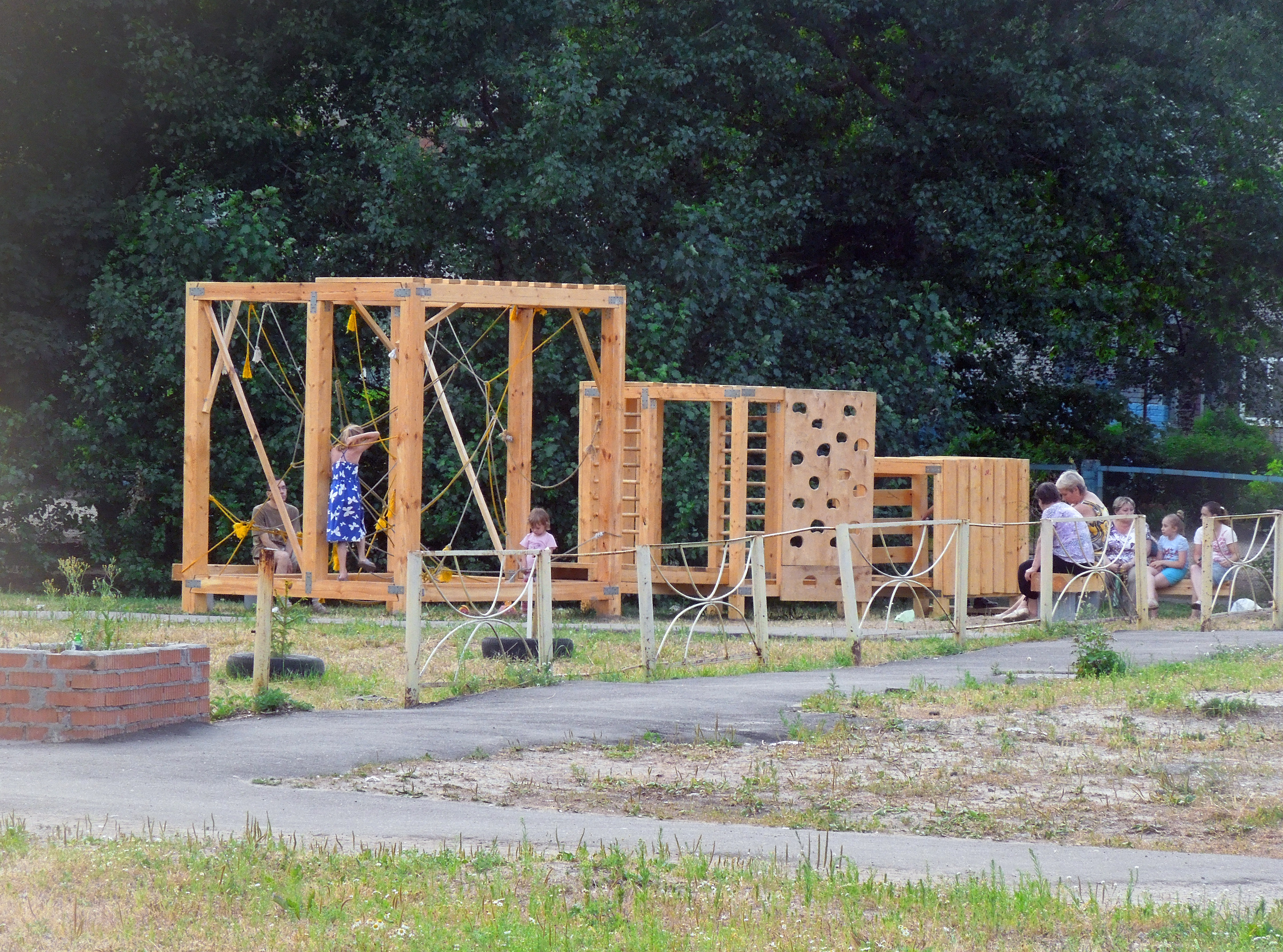 Social Revolution fest playground